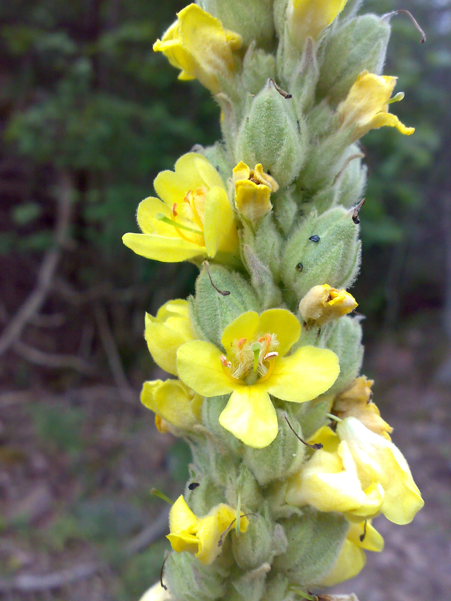 Verbascum thapsus in Hurum, Norway, 205 cm high